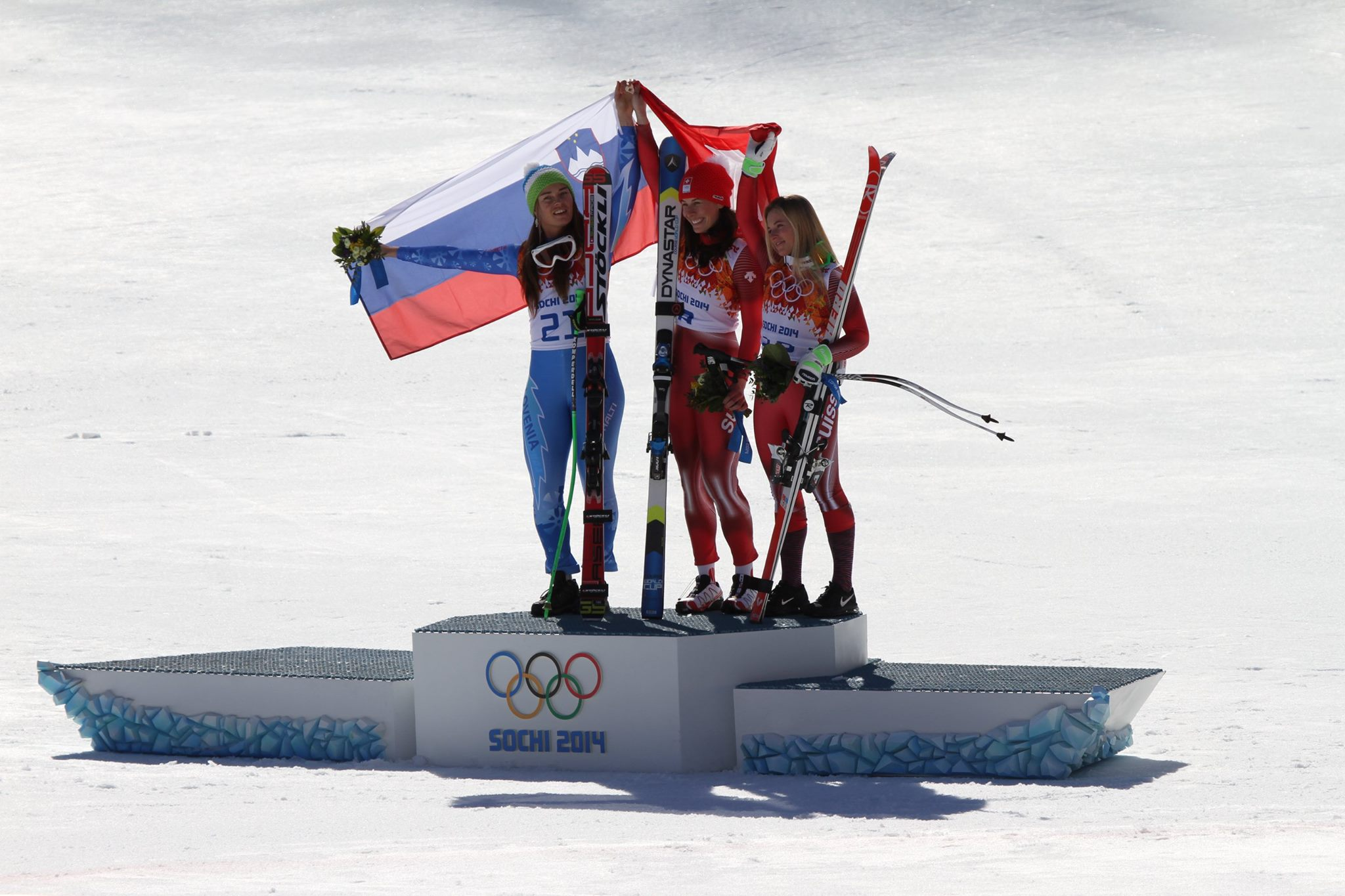 Women's downhill, 2014 Winter Olympics, podium Gold medal Tina Maze, Slovenia Gold medal Dominique Gisin, Switzerland Bronze medal Lara Gut, Switzerland